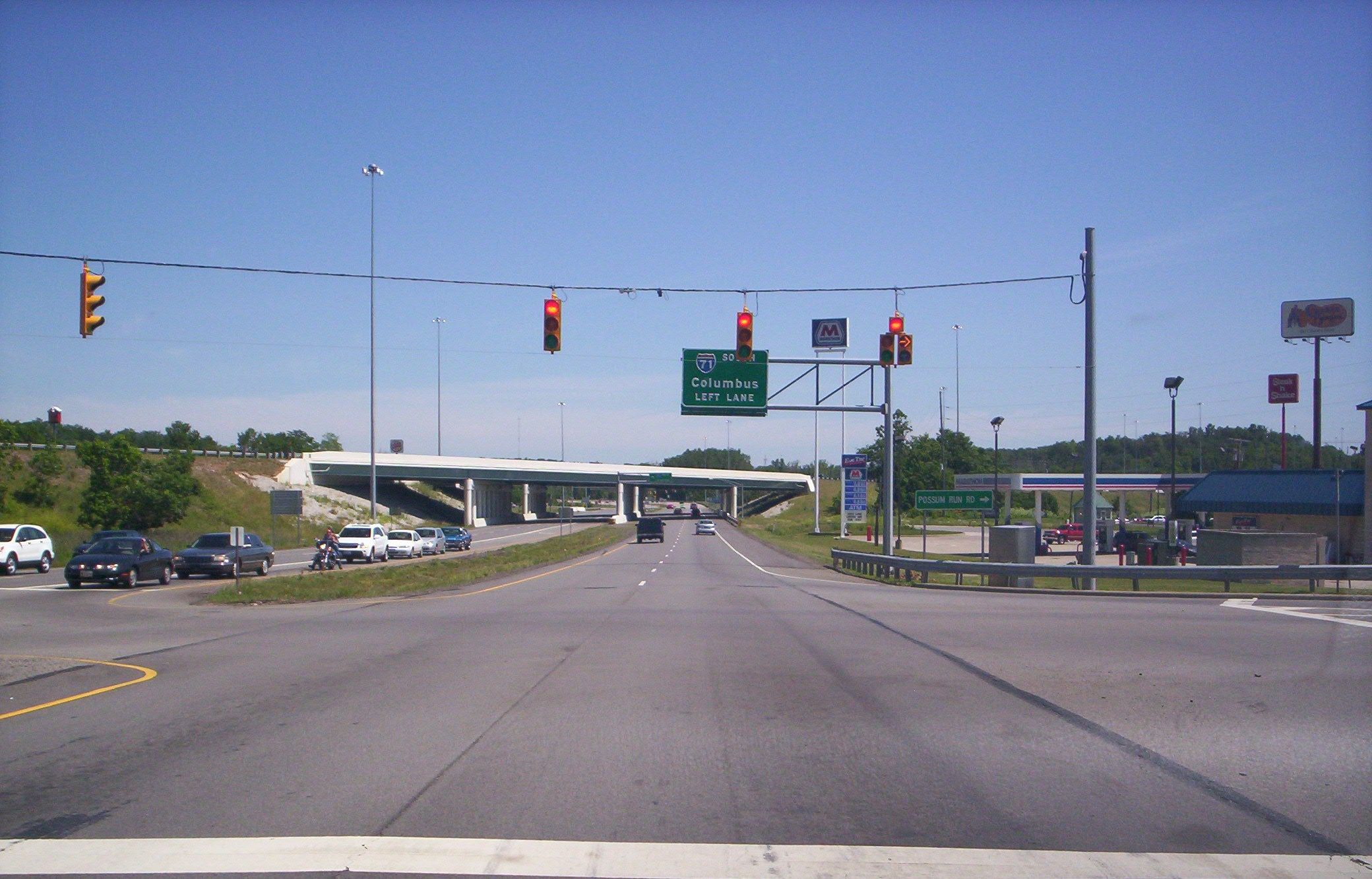 Ohio 13 at the Possum Run Road intersection near the junction of Interstate 71 in Mansfield, Ohio. - OpenStreetMap (Info)